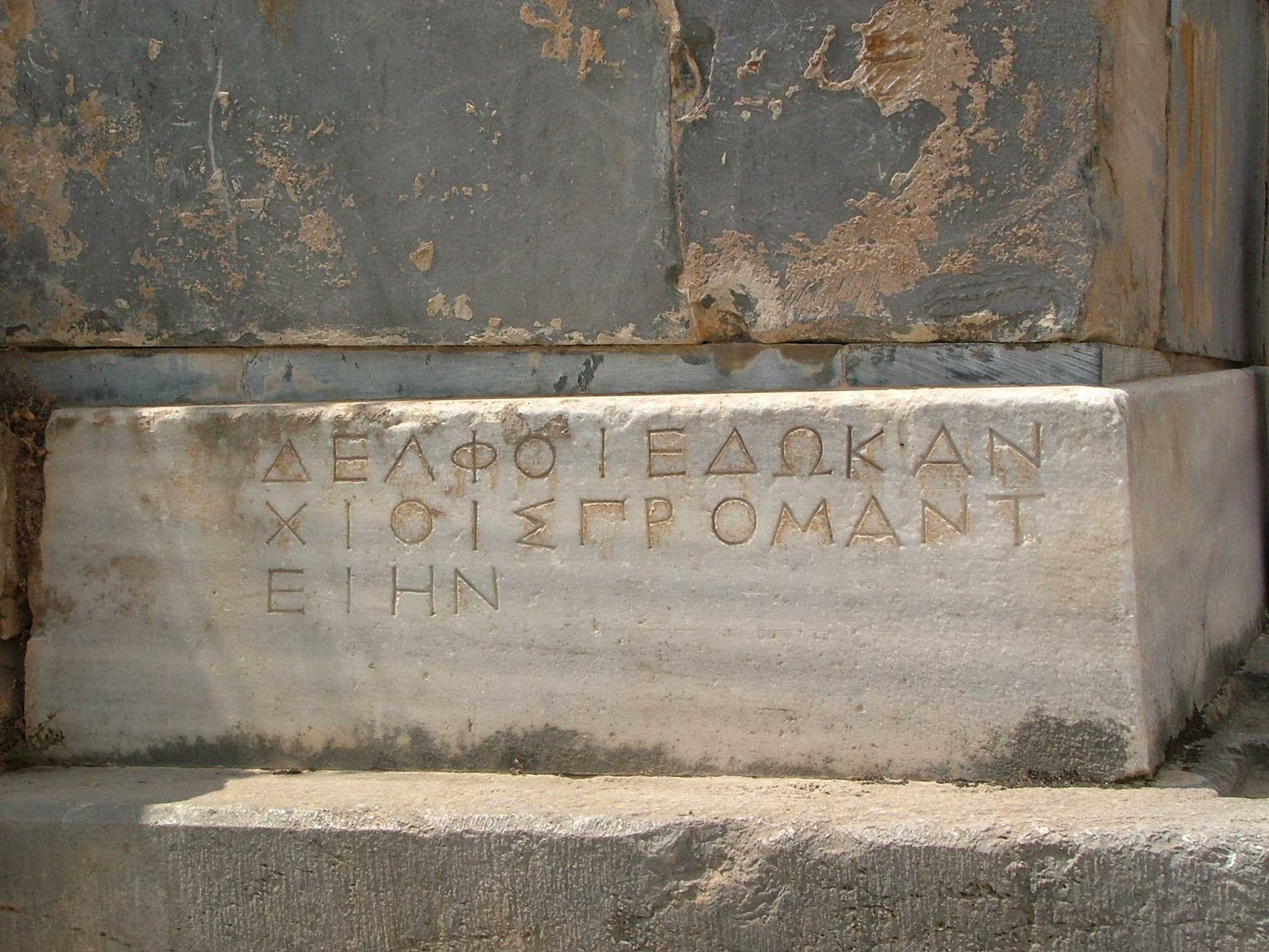 Ancient greek inscription at Apollo's temple basement in Delphi,Greece, giving promatia to the people of Chios